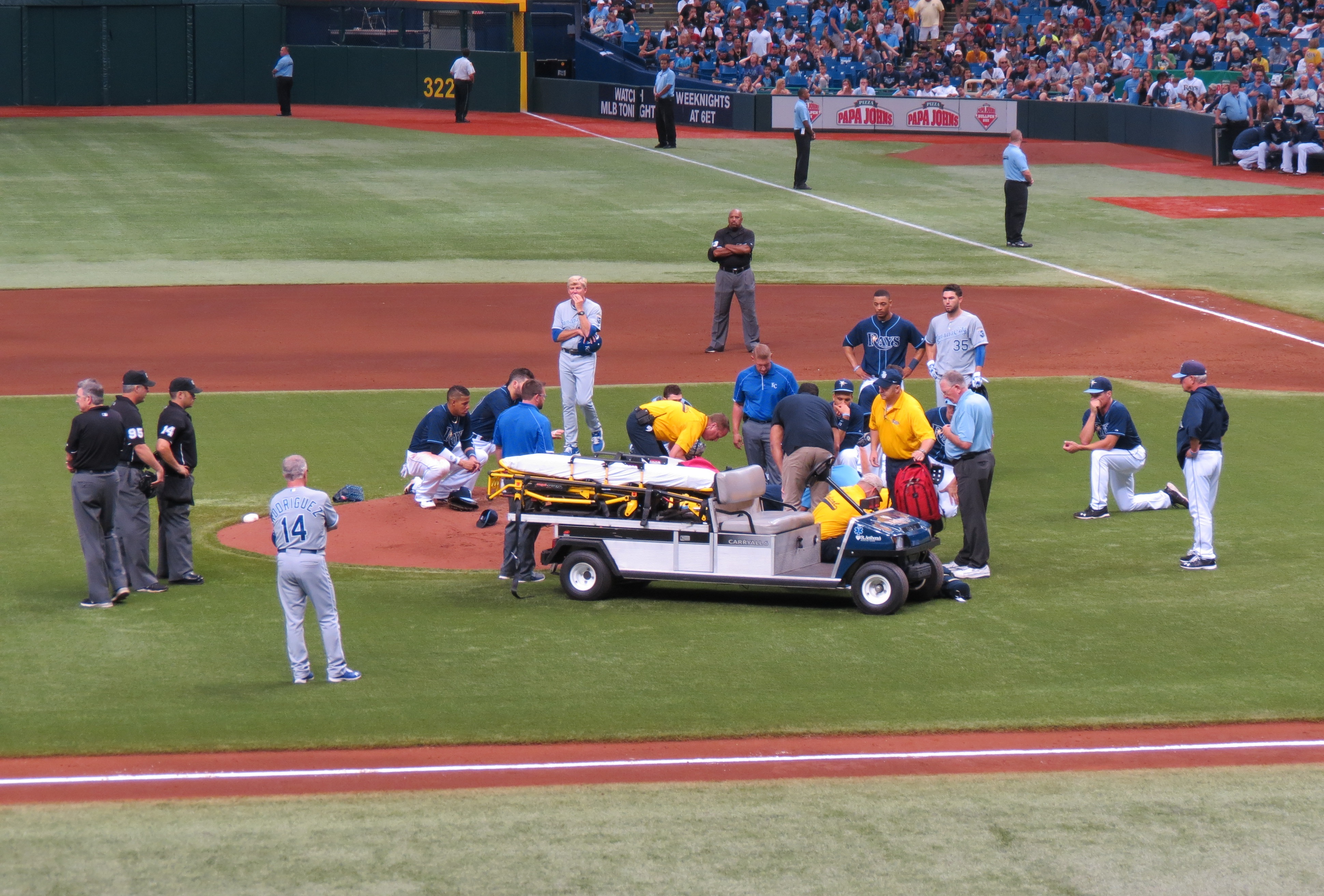 A stretcher is brought in for Tampa Bay Rays pitcher Alex Cobb after he was hit in the head by a line drive – Kansas City Royals at Tampa Bay Rays, June 15, 2013.